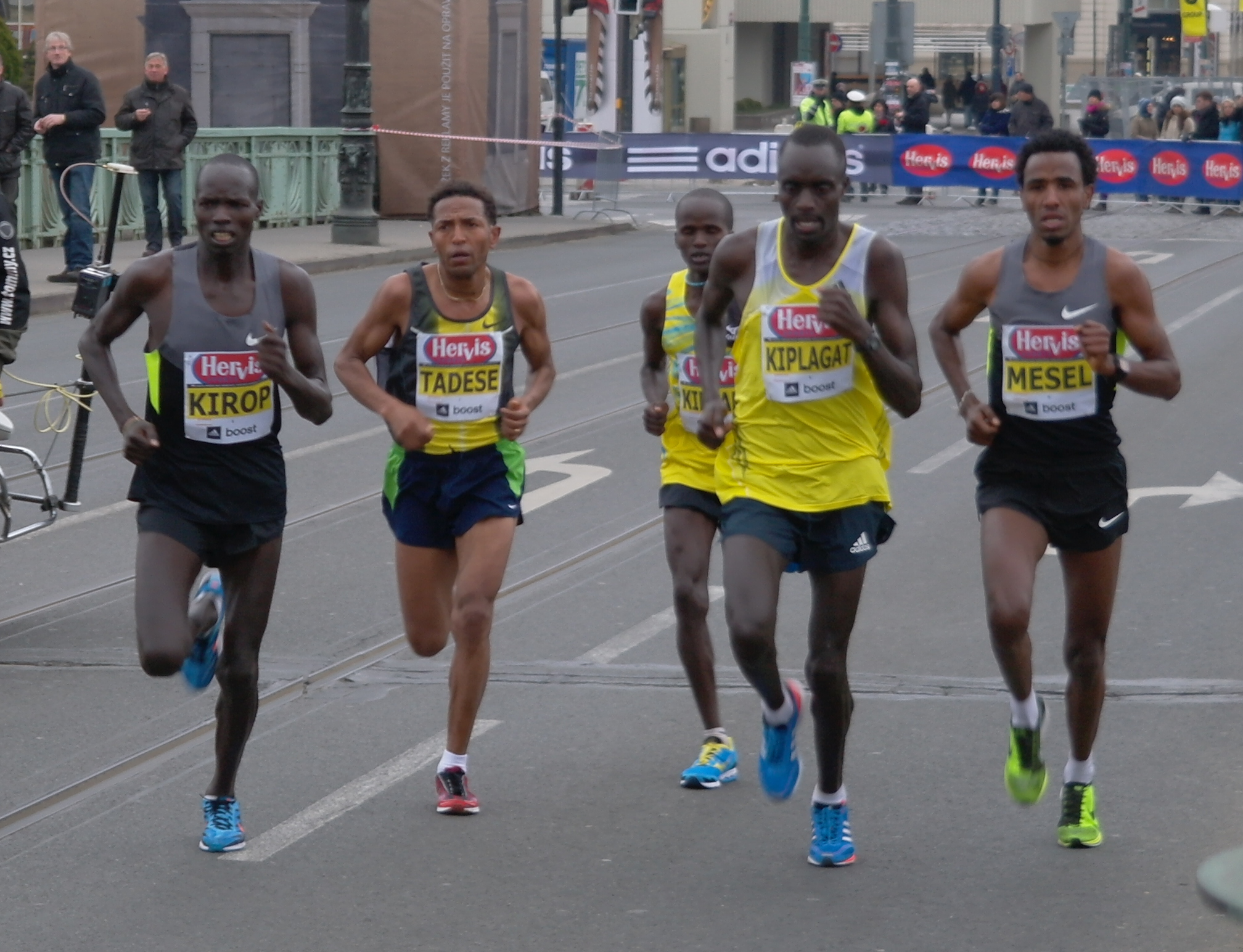 Prague Half Marathon 2013 - Left to right: Pius Maiyo Kirop, Zersenay Tadese, John Korir Kipsang, Henry Kiplagat and Amanuel Mesel crossing the Čechův most a few minutes before finishing the race